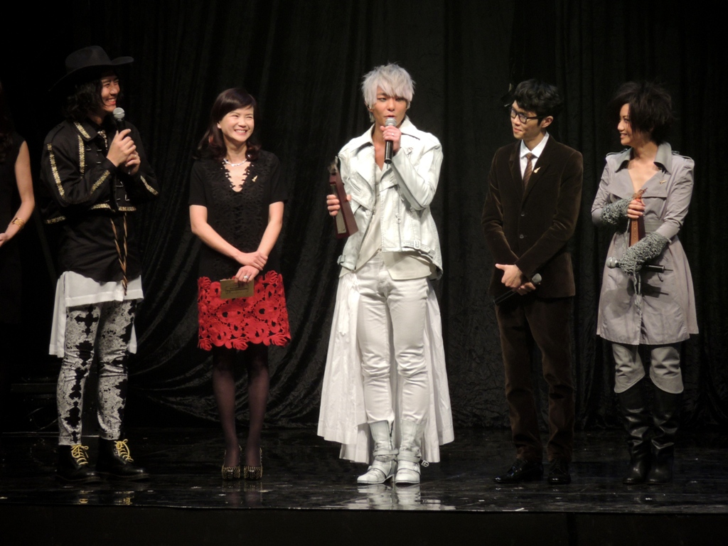 Best Singer-Songwriter Awards, Ultimate Song Chart Awards 2012